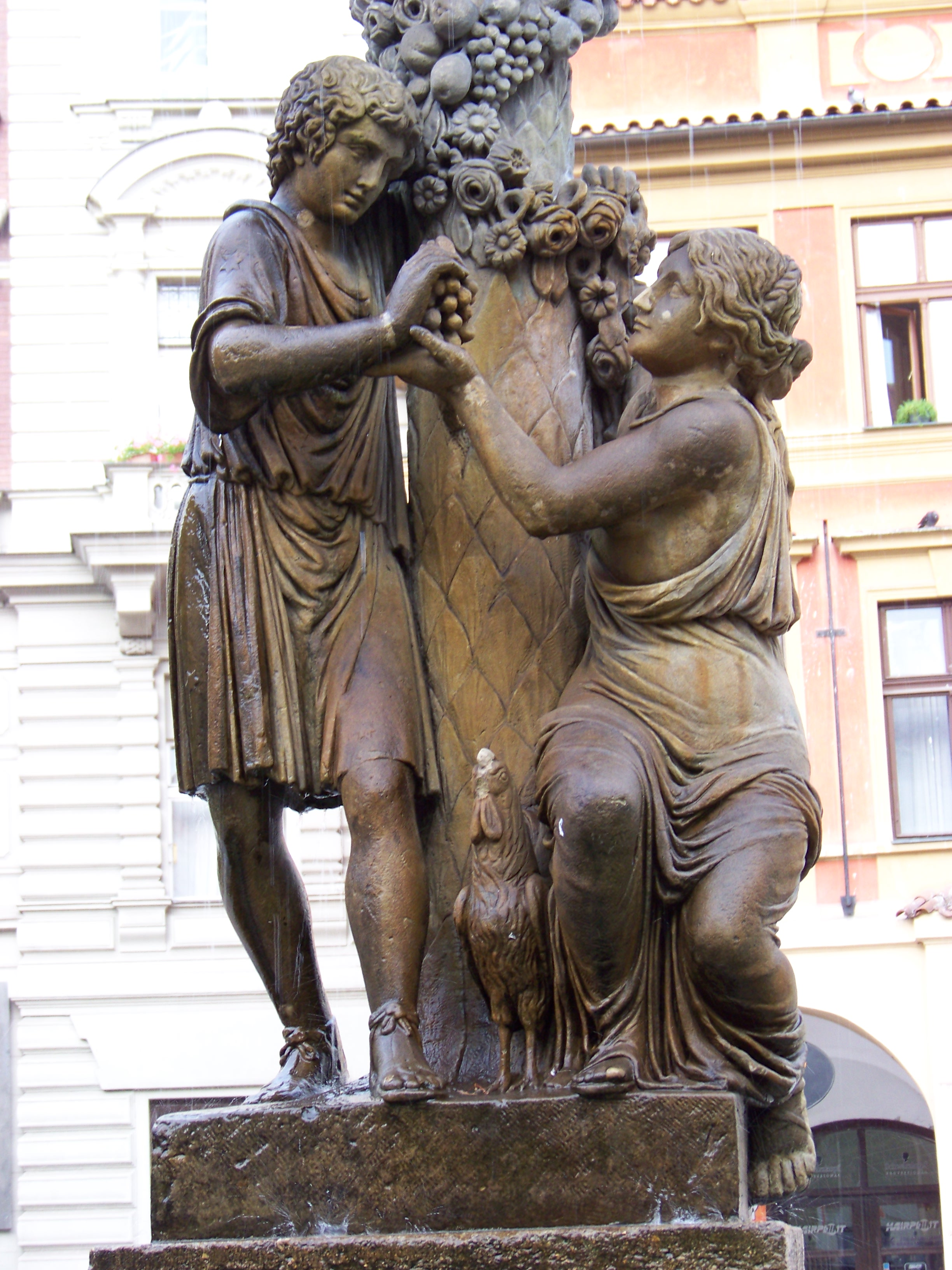 Prague-Old Town. Uhelný trh, a fountain.